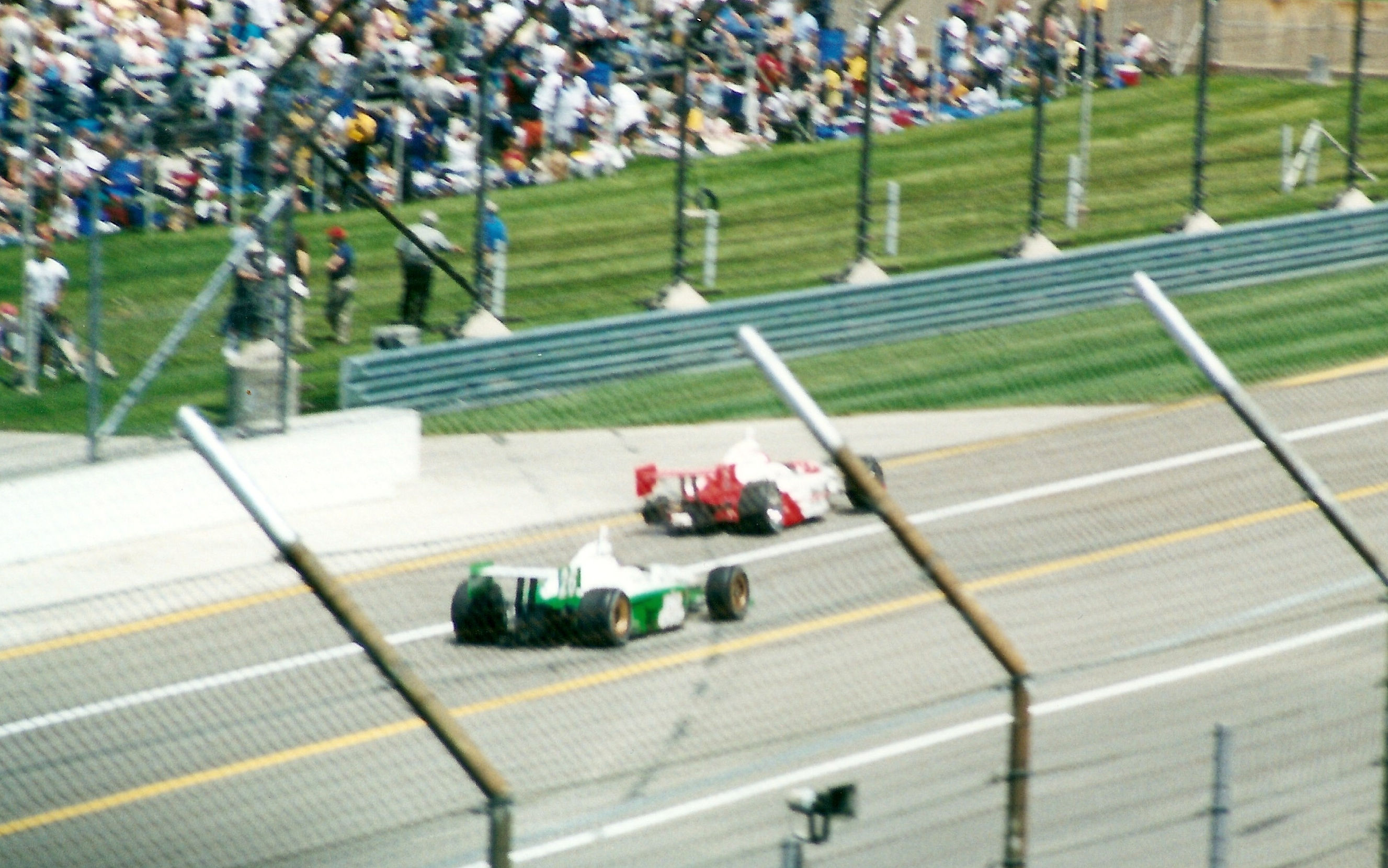 Gil de Ferran loses a wheel during the 2002 Indianapolis 500